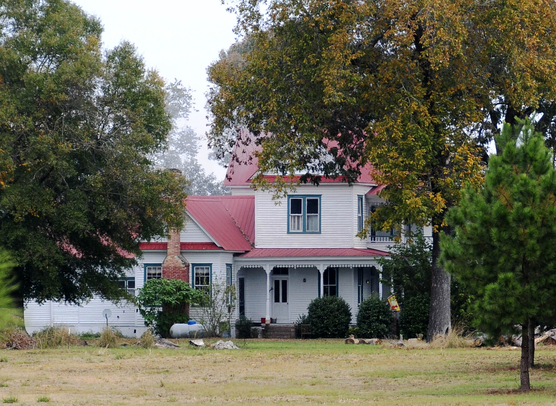 Haigler House, St. Mathews vicinity, South Carolina